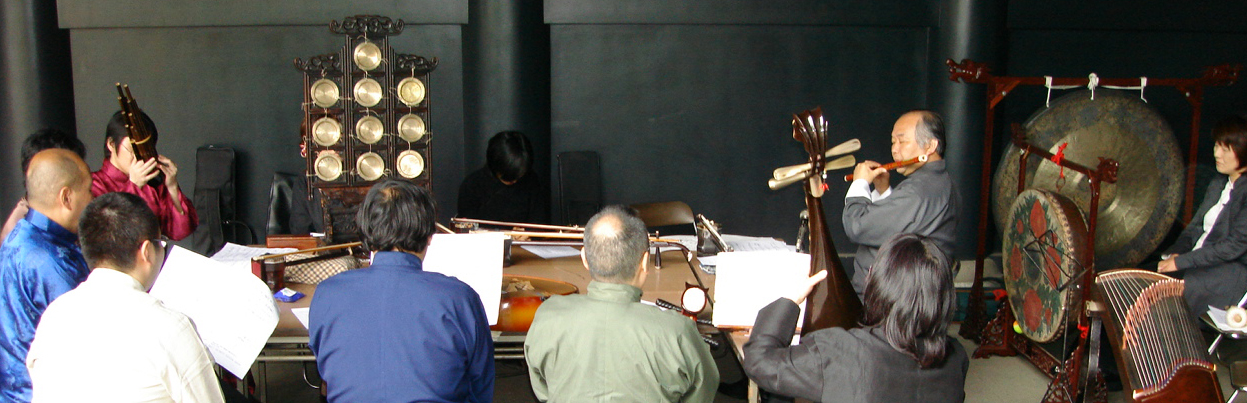 The session of "Mingaku" or "The classic music of Ming Dynasty" performed at Yushima Seidou,Tokyo.